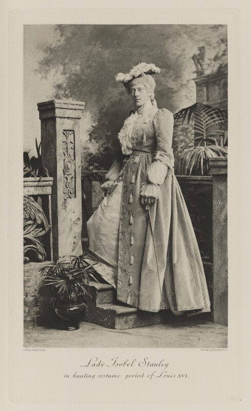 Lady Isobel Constance Mary Gathorne-Hardy (née Stanley) in hunting costume, period of Louis XVI by Lafayette (Lafayette Ltd), photogravure by Walker & Boutall photogravure, 1897; published 1899 7 1/8 in. x 4 1/2 in. (181 mm x 114 mm) image size Purchased, 1975 Photographs Collection NPG Ax41107